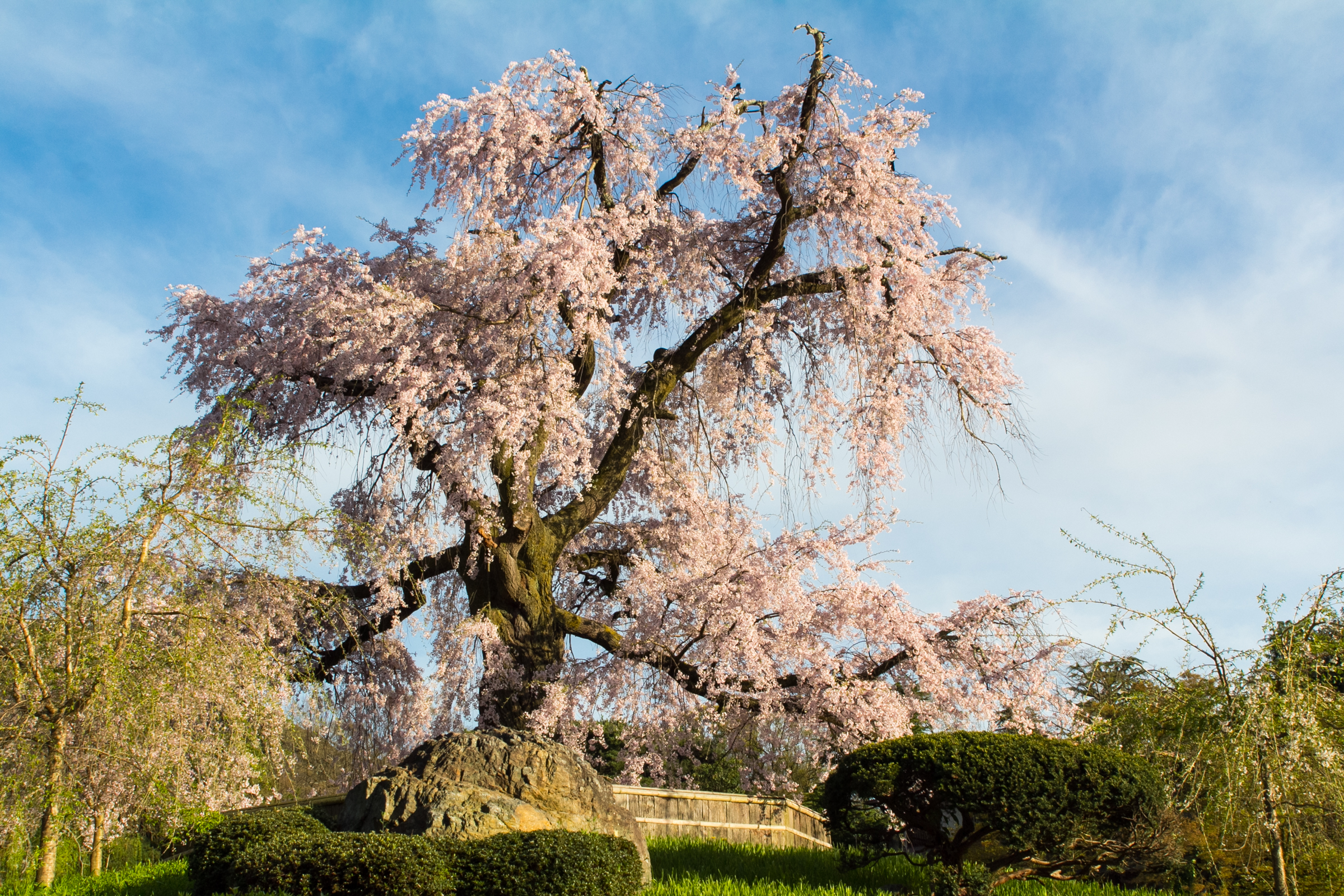 Sakura in Kyoto's Maruyama Park